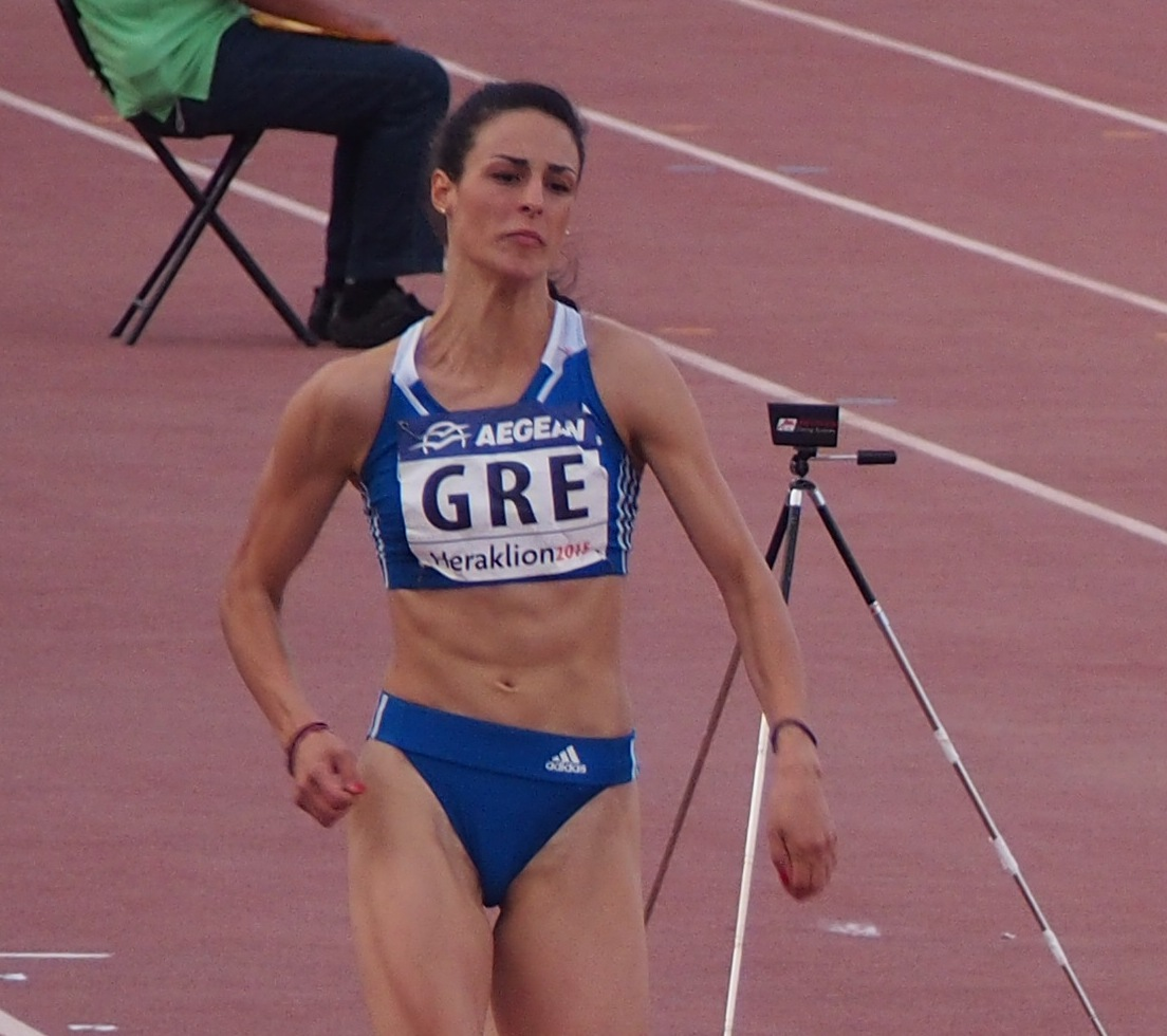 Haido Alexoudi during 2015 European Team Championships First League.